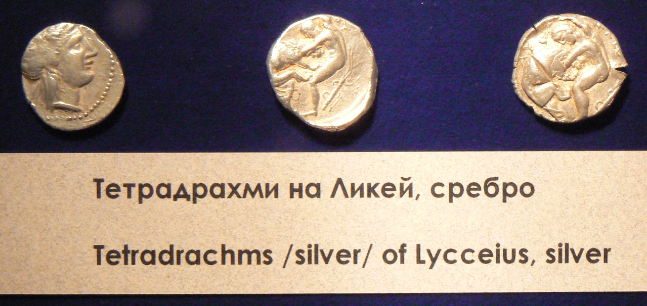 Silver tetradrachms of Lycceius. Part of the Rezhantsi Treasure. Exhibits of the National History Museum of Bulgaria